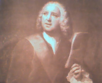 Robert Sutton - british diplomat (18th Century)